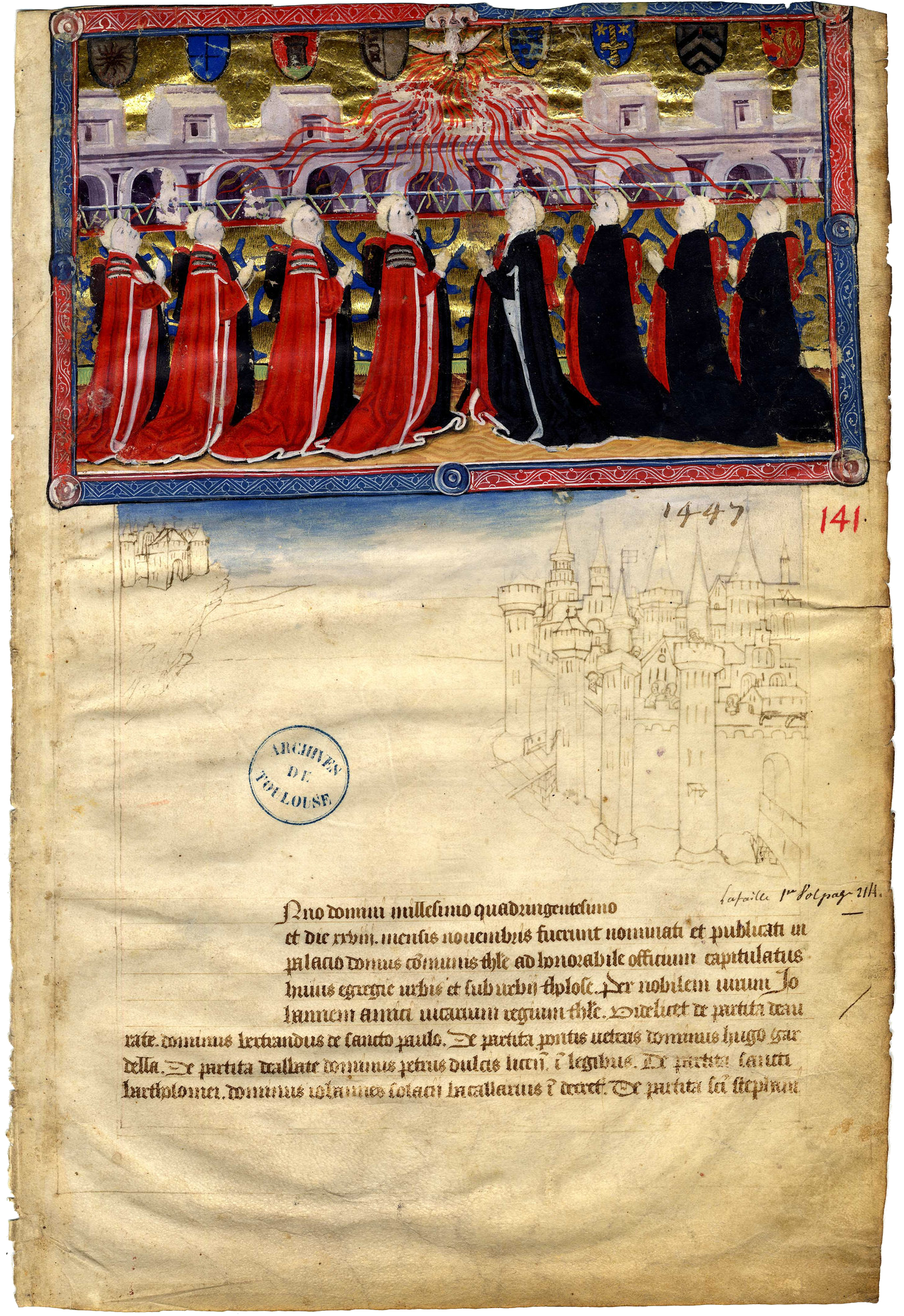 A portrait of the capitouls of Toulouse, France, for the year 1453 in their robes of state. The dove of the Holy Spirit is shown inspiring them. Below, the entry of the events of their year in office and a sketch of the town of Toulouse in 1453.